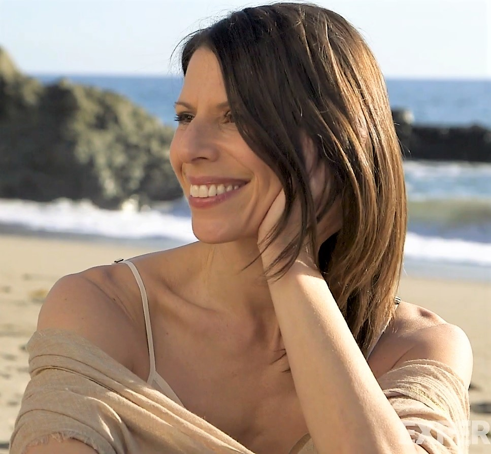 Behind the Scenes With Tamara Levitt Go behind the scenes at the Experience Life beachside cover shoot with author and mindfulness instructor Tamara Levitt as she shares tips for living calmly, courageously, and compassionately.